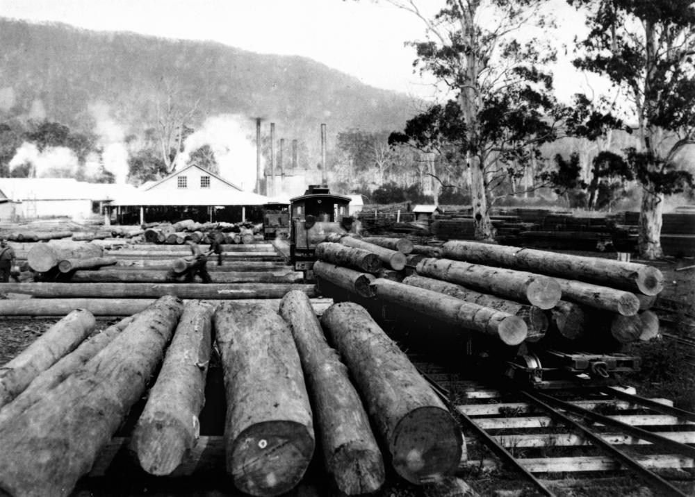 Canungra Sawmill, ca. 1913. Caption below photograph reads: Mill Log Skids.